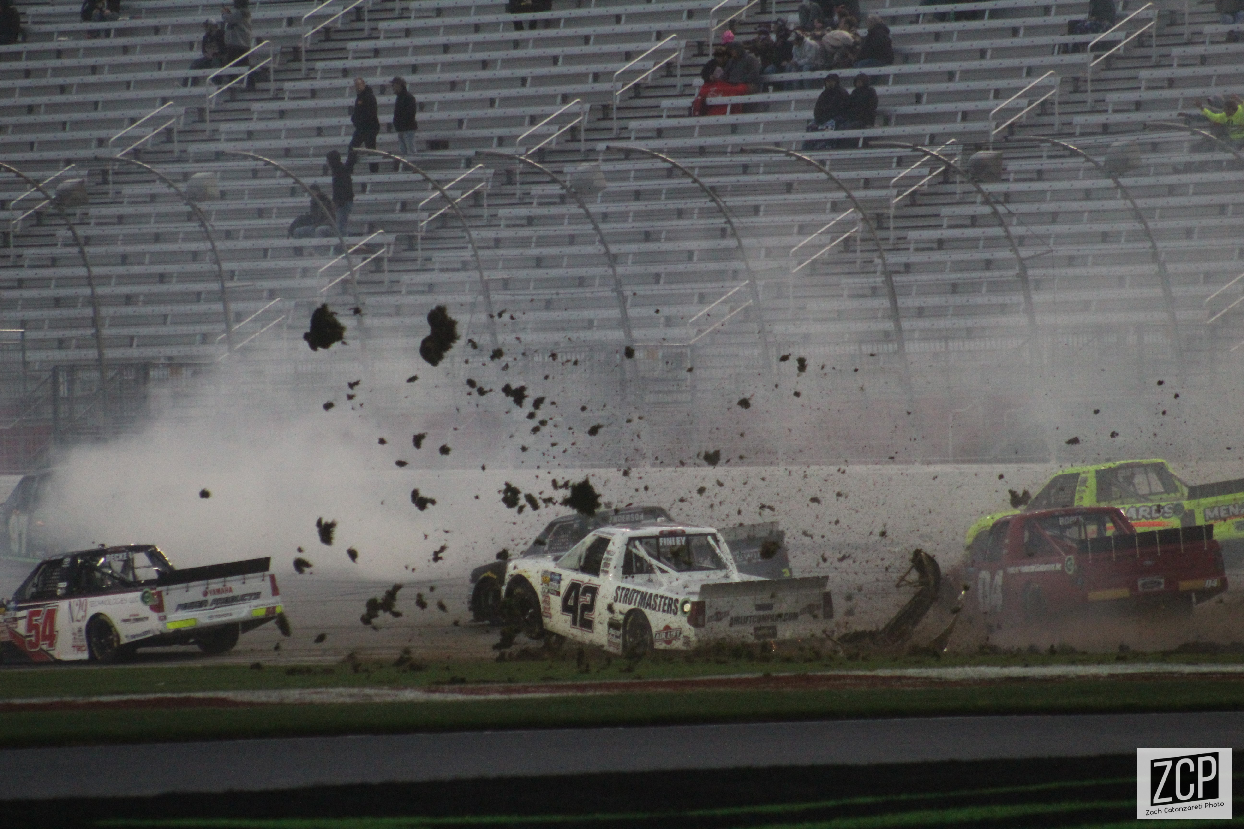 2019 Folds of Honor QuikTrip 500